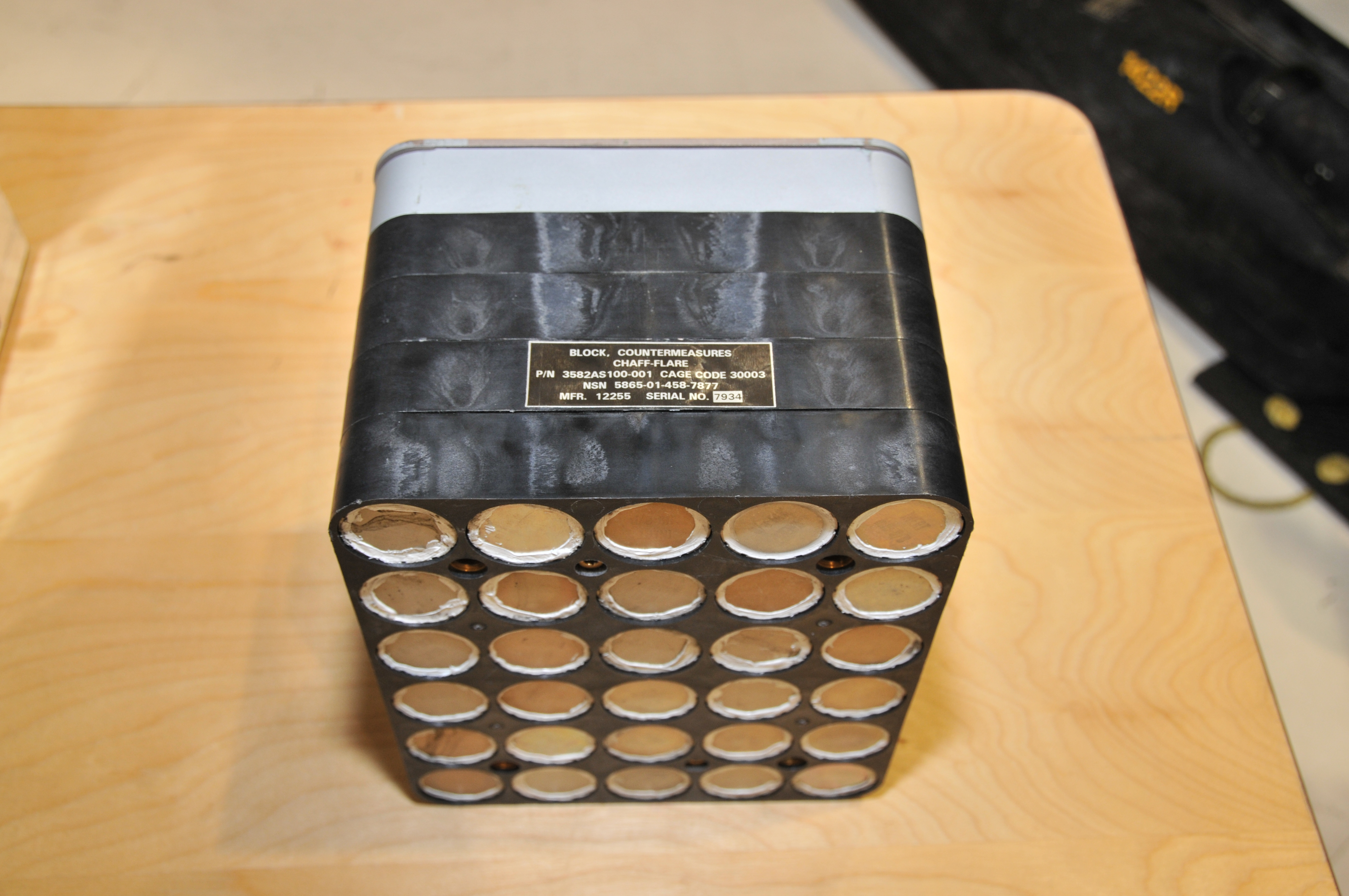 Chaff-Flare Countermeasure for CH-146 Griffon